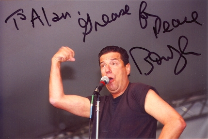 Jon Bowzer Bauman - Apr 2000 Photo by Alan C. Teeple User:ACT1